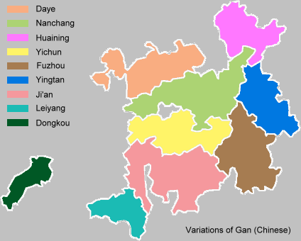 Map showing distribution and extent of Gan dialects.